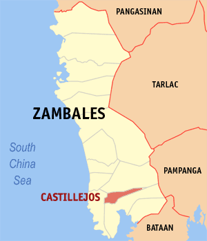 Map of Zambales showing the location of Castillejos